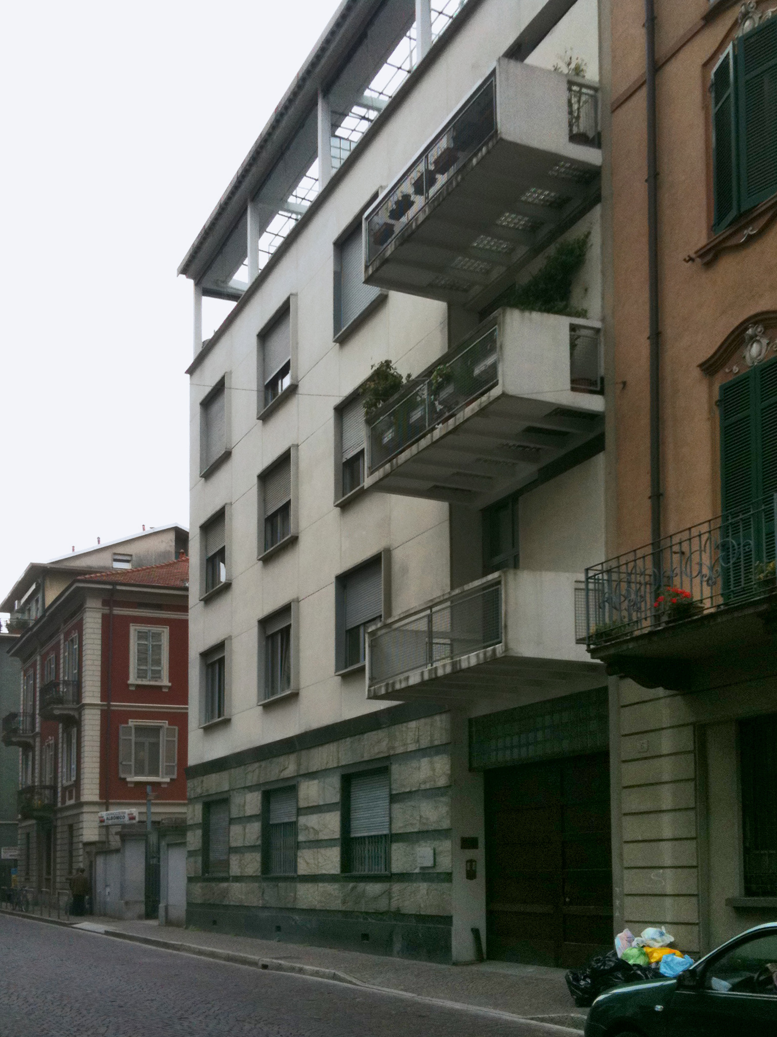 casa pedraglio